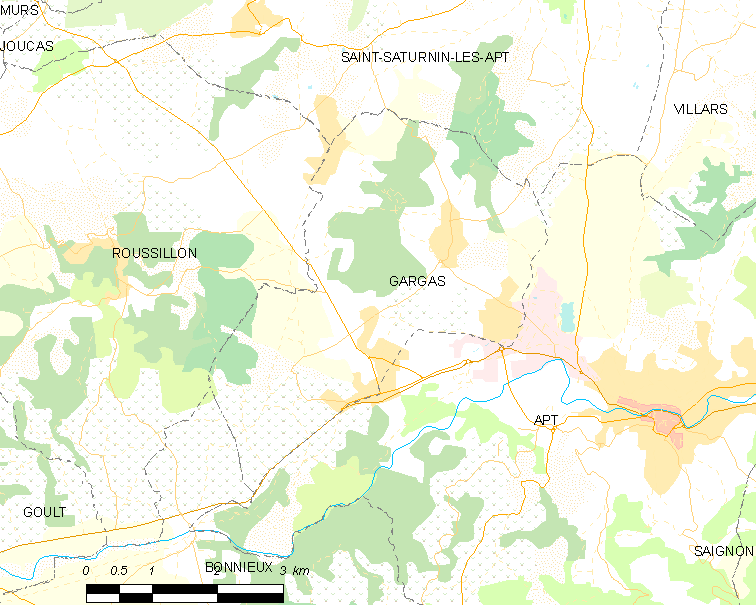 Map of French municipality Gargas